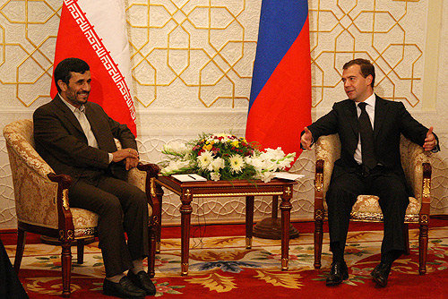 DUSHANBE. With President of Iran Mahmoud Ahmadinejad.